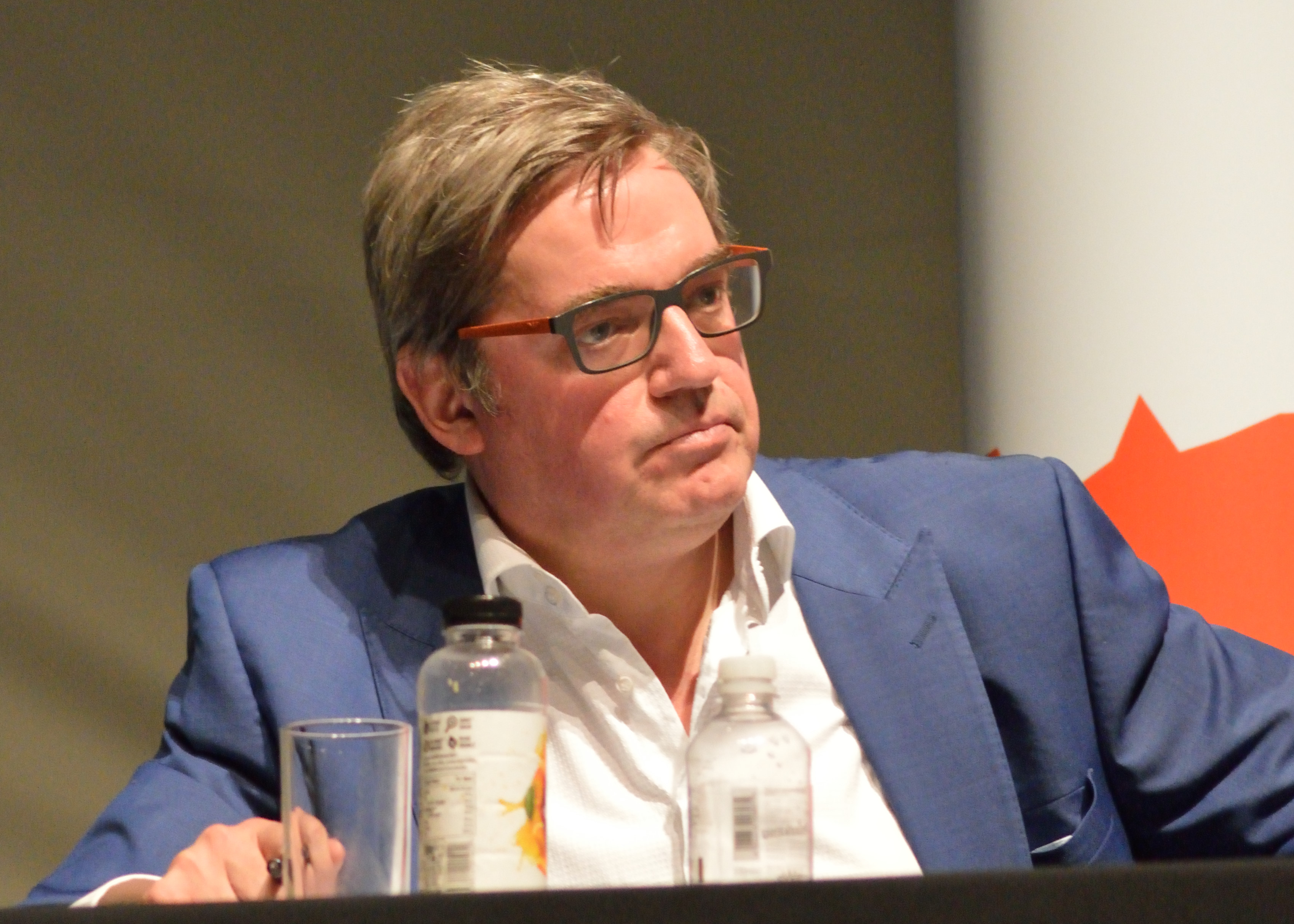 Phillip Blond, founder of ResPublica , speaking at its Tomorrow's Democracy day conference at The Riverfront, Newport, on 5 November 2018.